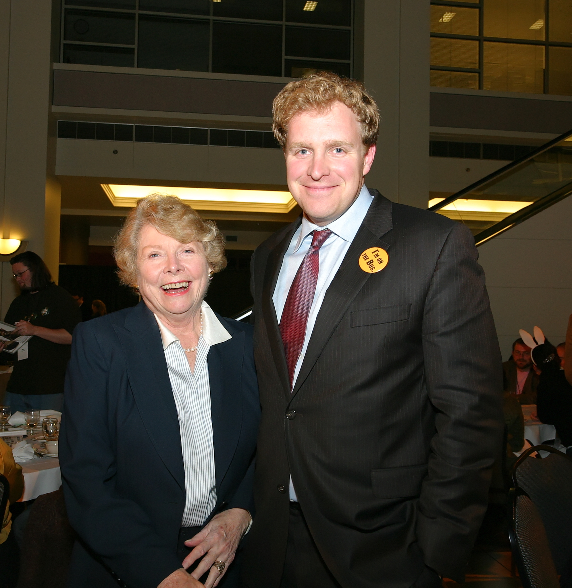 Norma Paulus, former Oregon Secretary of State with Jefferson Smith, who had recently been elected to the Oregon House of Representatives